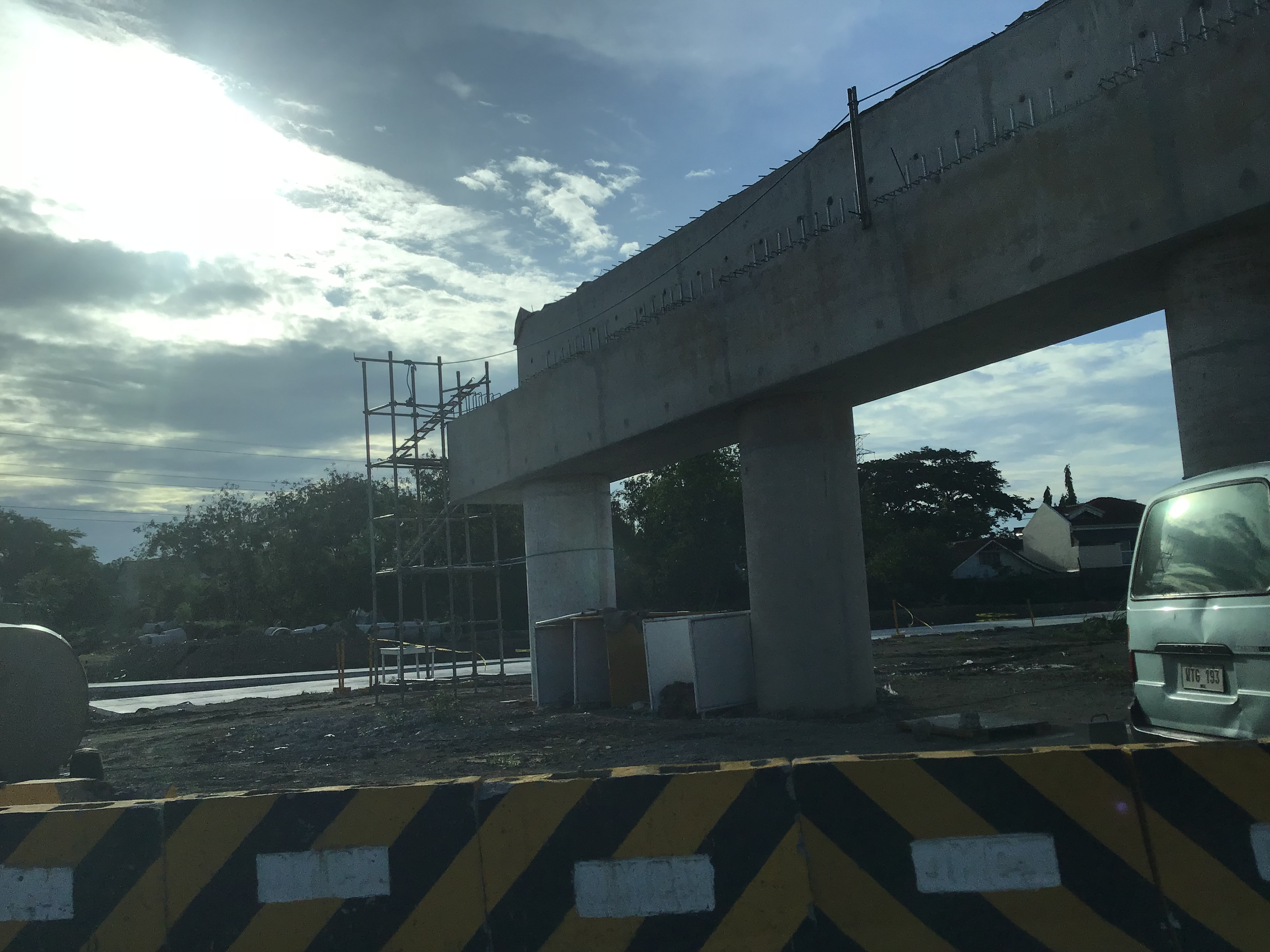 Construction of CALAX in Nuvali as of June 2018. Pillars installed.